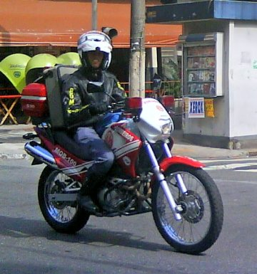 First response motorcycle of the São Paulo Fire Department (Corpo de Bombeiros do Estado de São Paulo) crossing rua Dona Veridiana, in the Vila Buarque neighborhood, near the Santa Casa de Misericórdia hospital complex. The department's motorcycles are always deployed in two-man teams; the lead firefighter was to the right of the frame at the time this photo was taken.